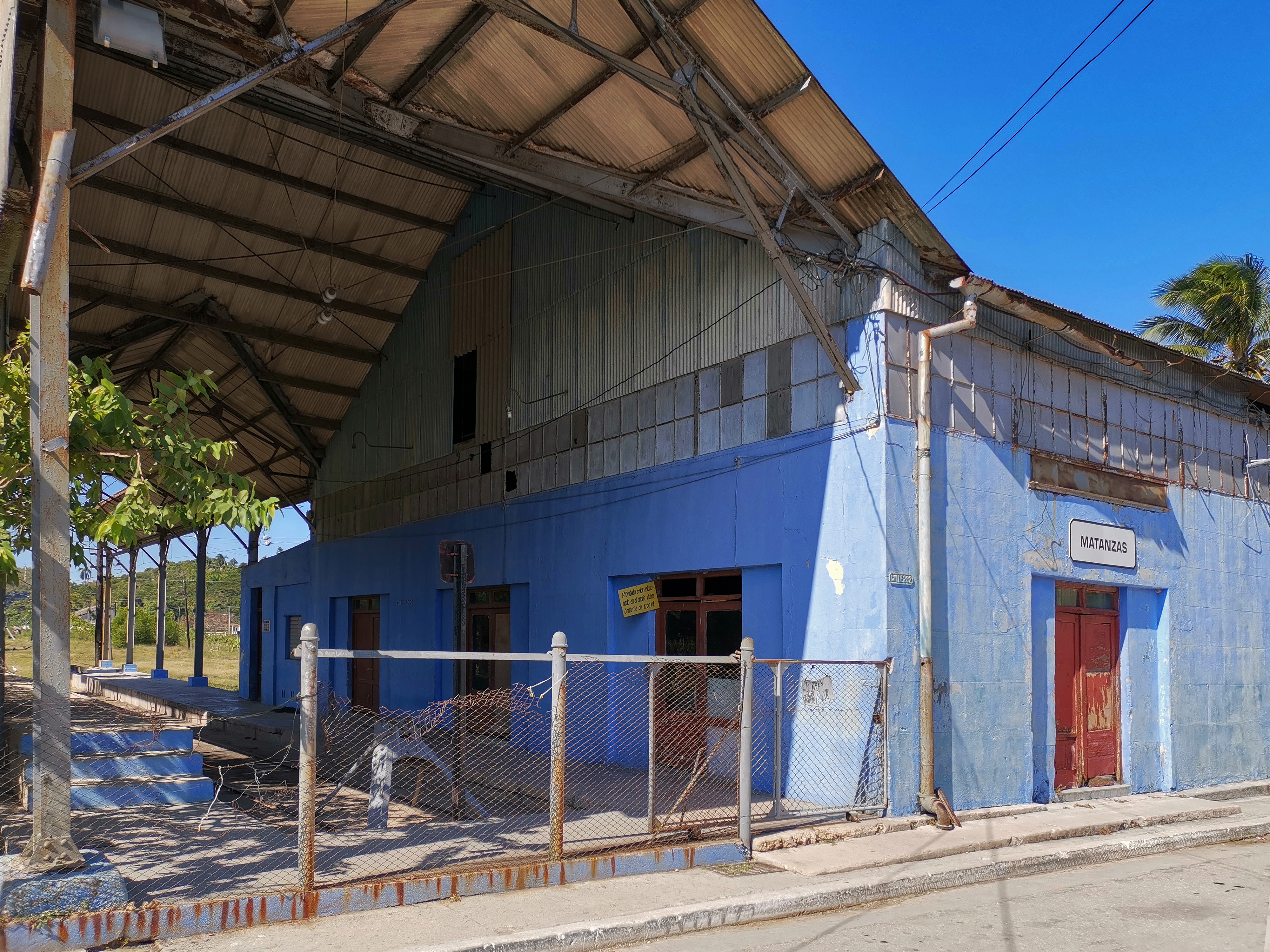 Matanzas electrotrain station 2019